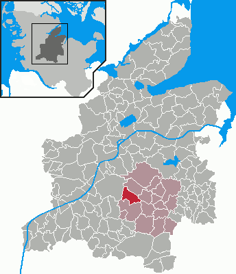 Locator maps of municipalities in Schleswig-Holstein - District Rendsburg-Eckernförde